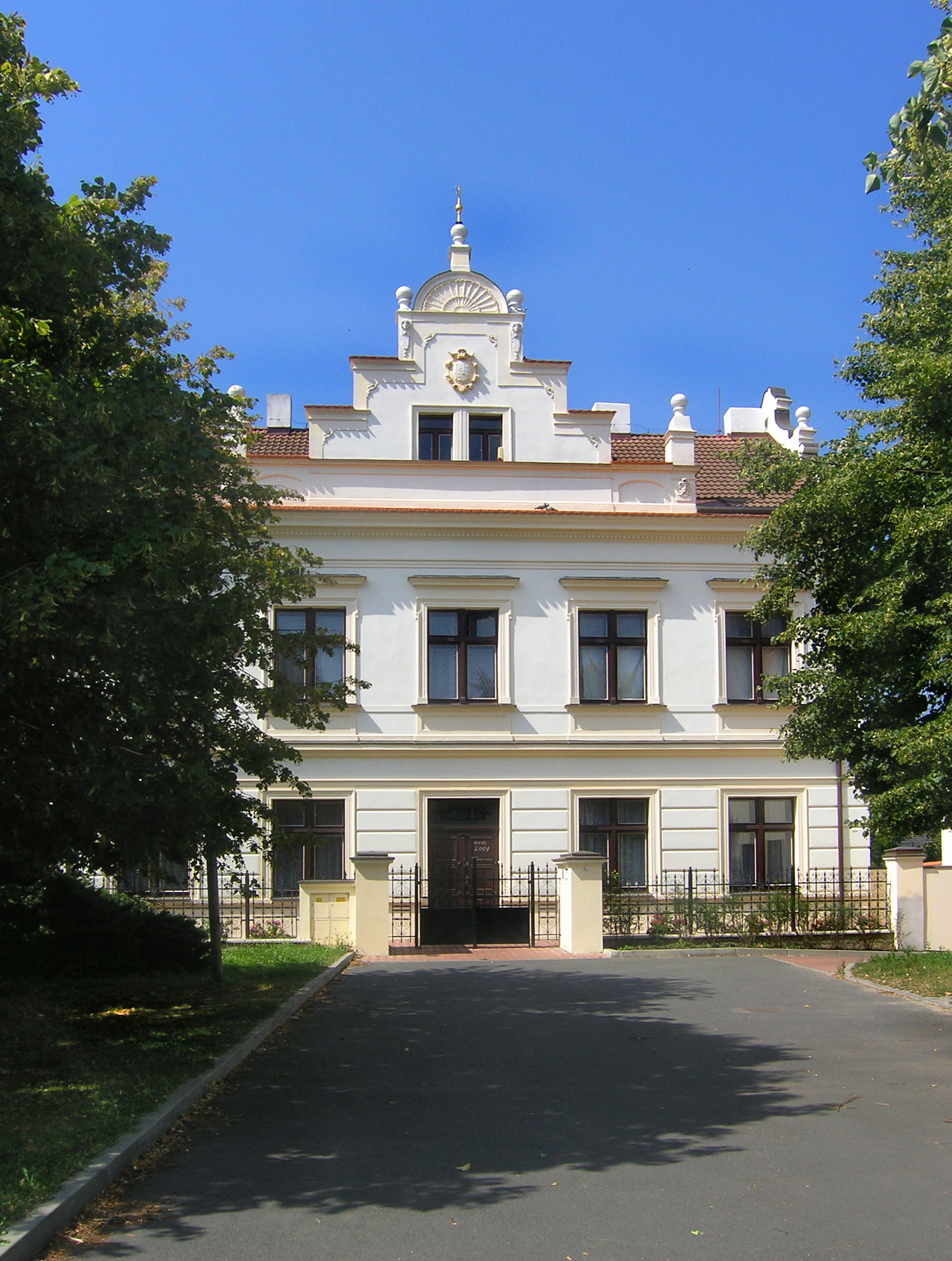 Presbytery in Čestlice. Czech Republic